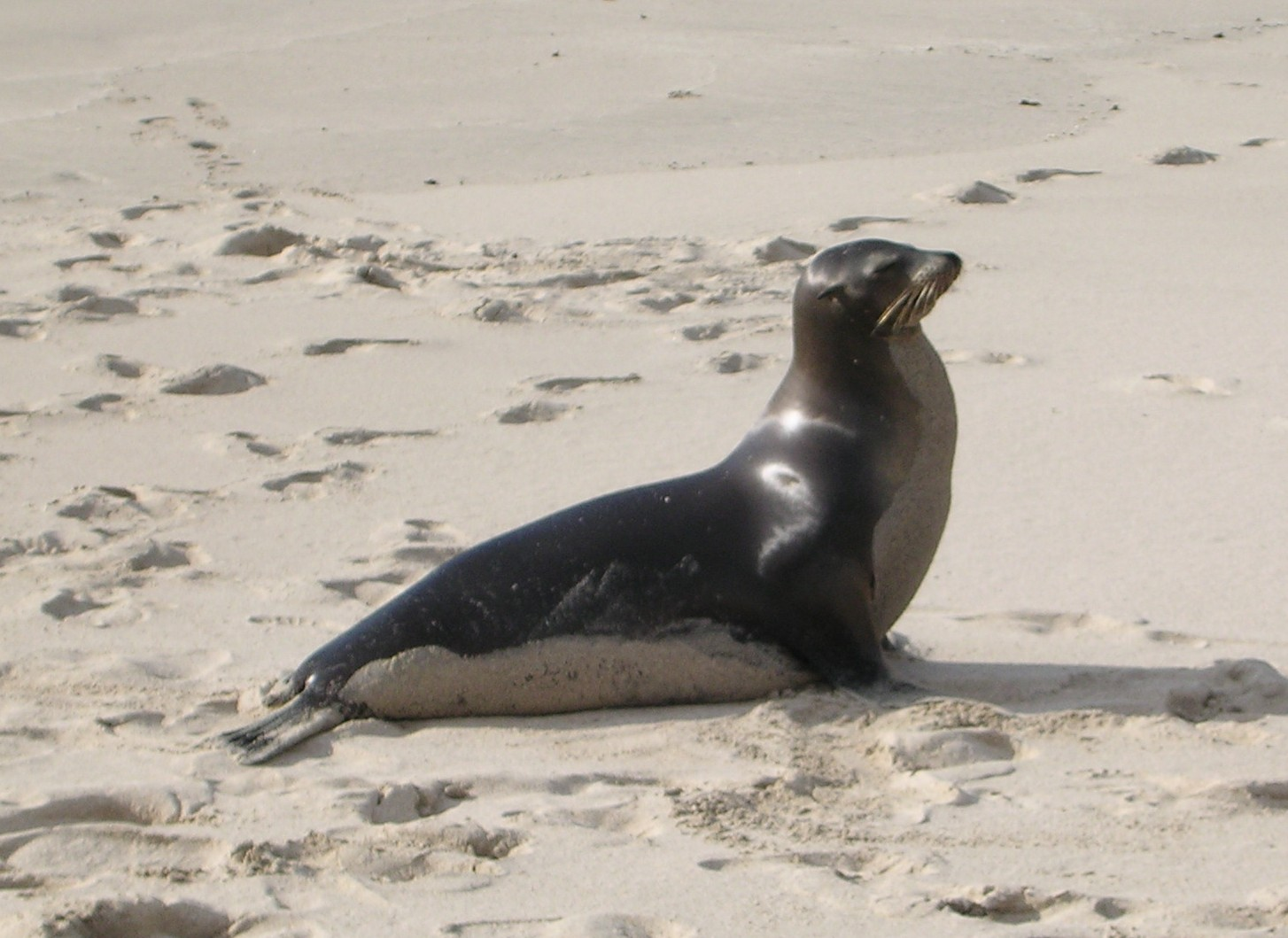 Galapagos Sea Lion (Zalophus wollebaeki Syn. Zalophus californianus wollebaeki)